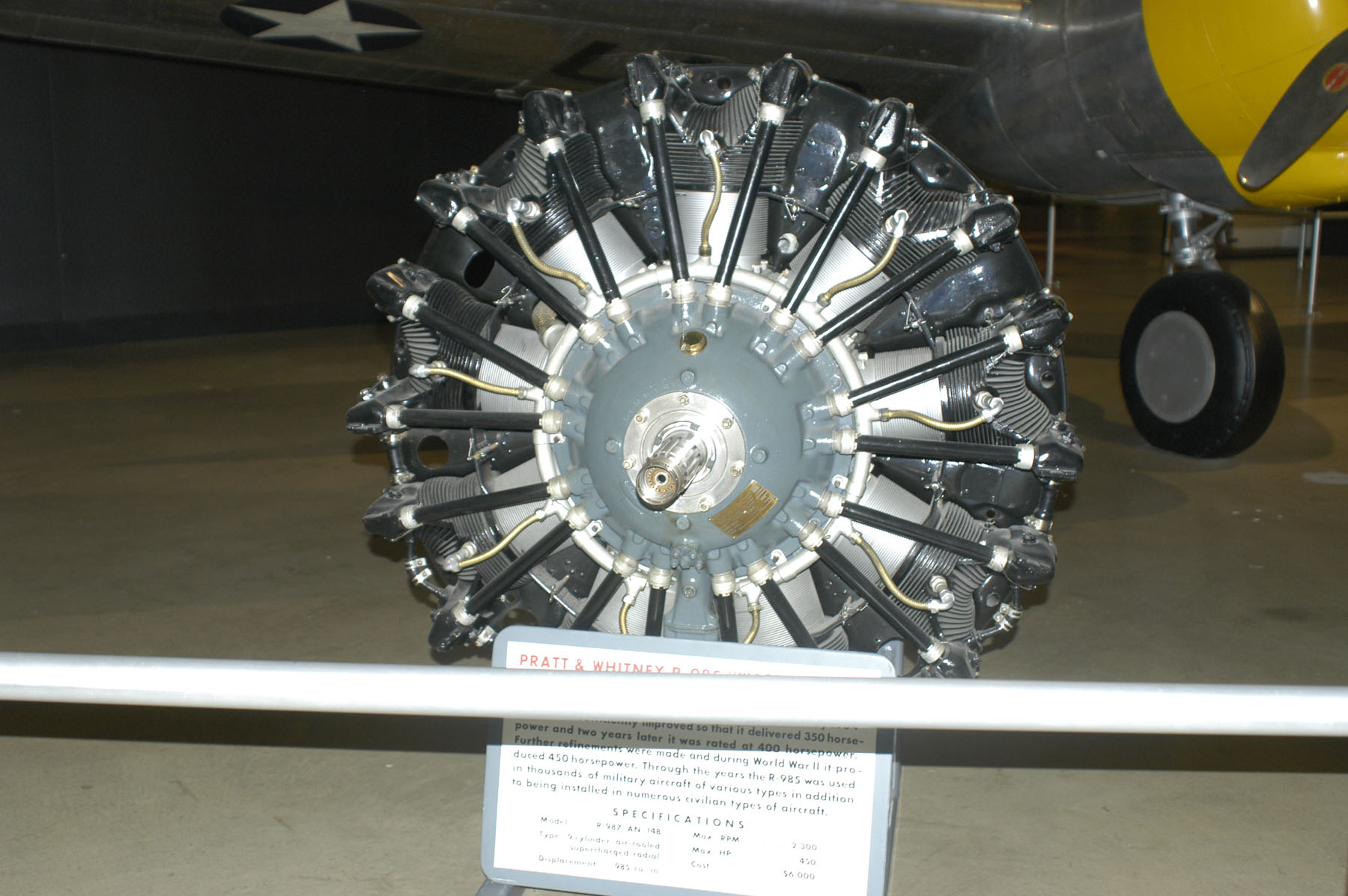 Pratt & Whitney R-985 Wasp Junior on display in the Air Power Gallery at the National Museum of the United States Air Force.